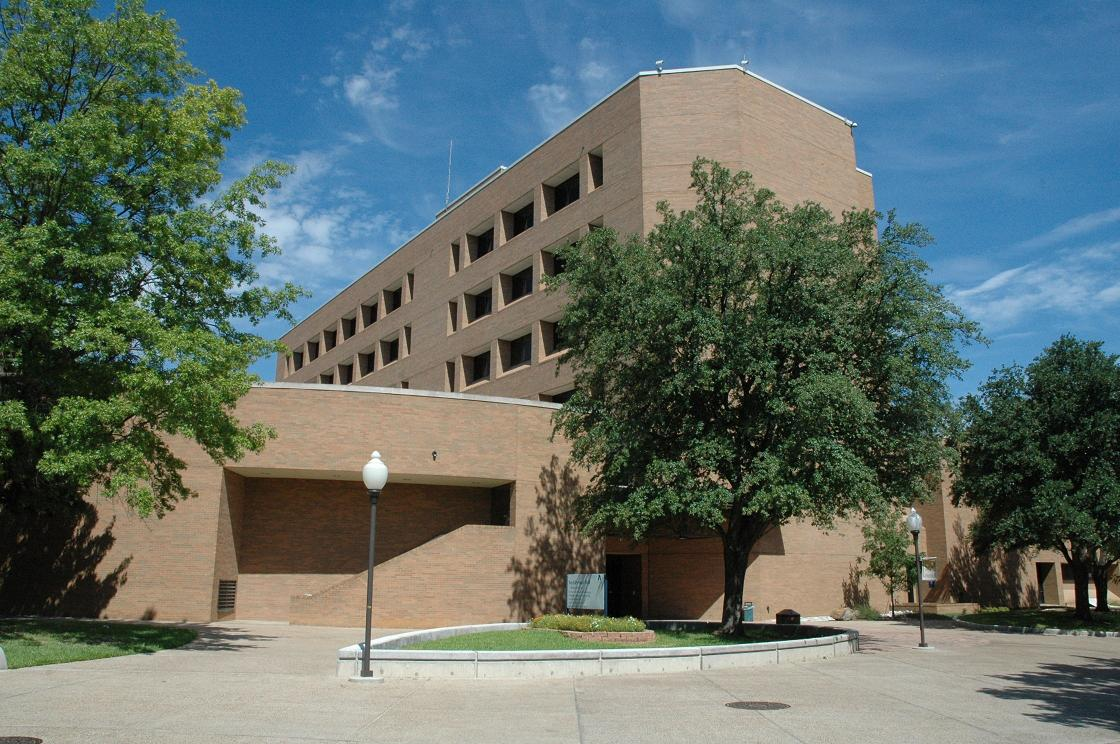 A picture of Nedderman Hall on the University of Texas at Arlington campus in Arlington, Texas, United States.